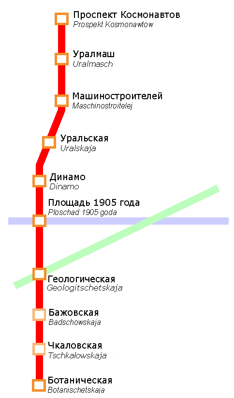 Description: Map of the Jekaterinburg Metro with labeling in russina language and transcripted into german language Author: Jcornelius Date: June 22, 2005 (edited by December 16 2011) License: GFDL